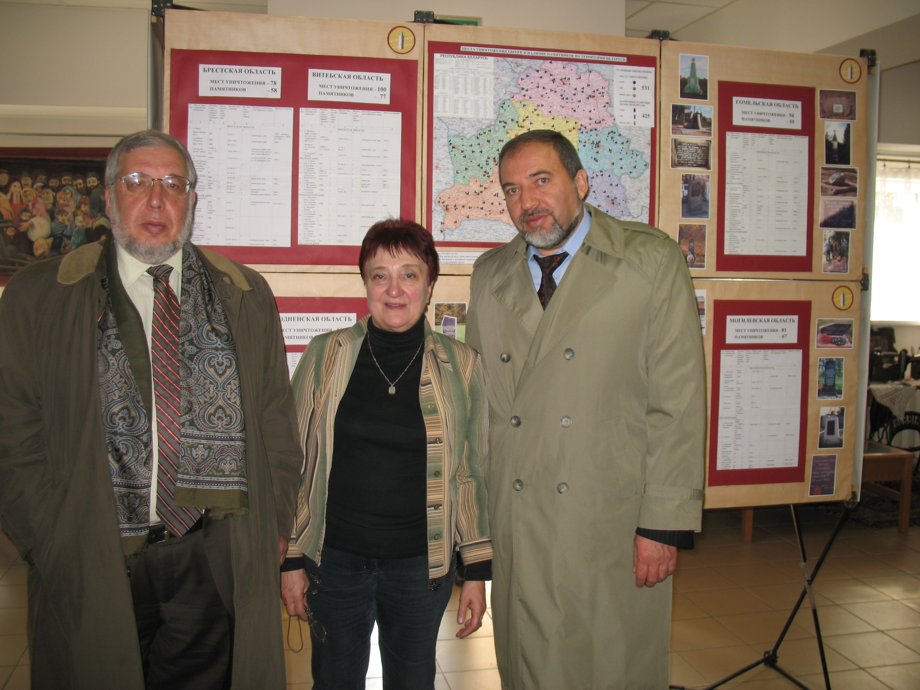 Avigdor Lieberman in Museum of history and culture of Jews of Belarus.jpg